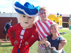 Patriot